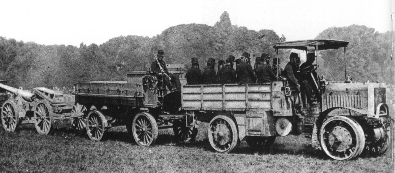 French army Panhard-Châtillon heavy artillery tractor (1914)